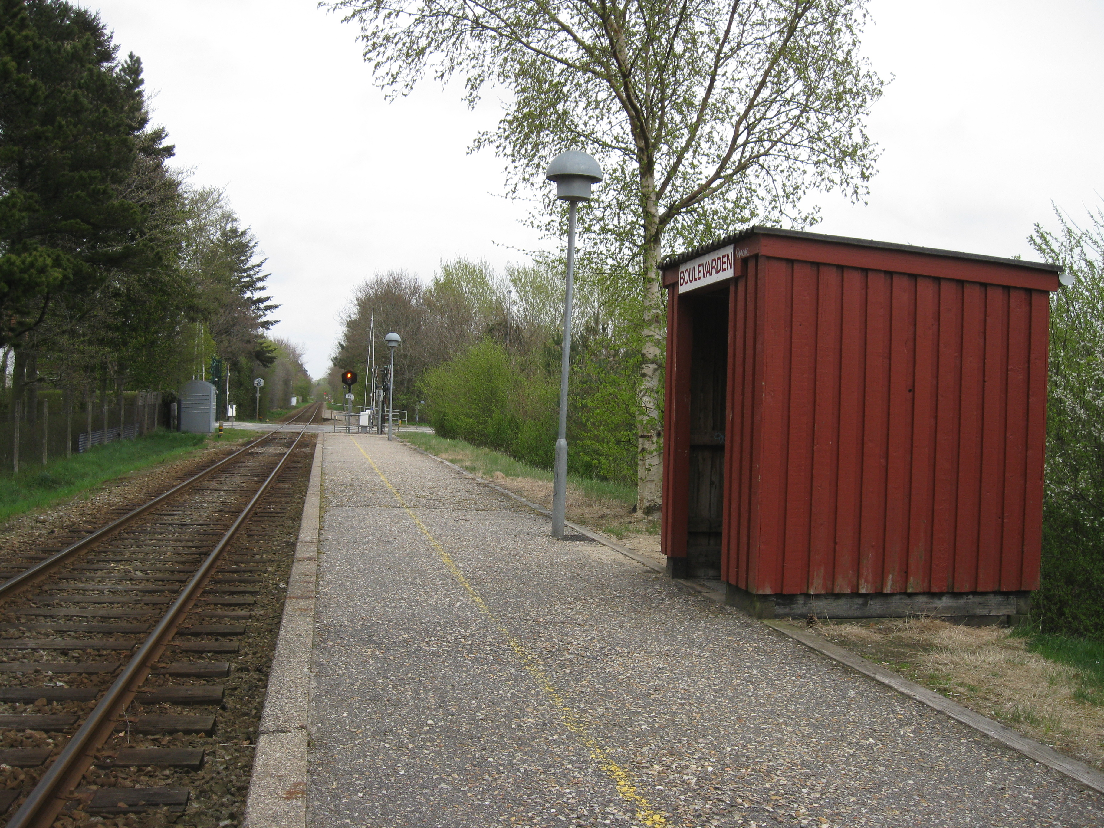 Train station Boulevarden, Denmark